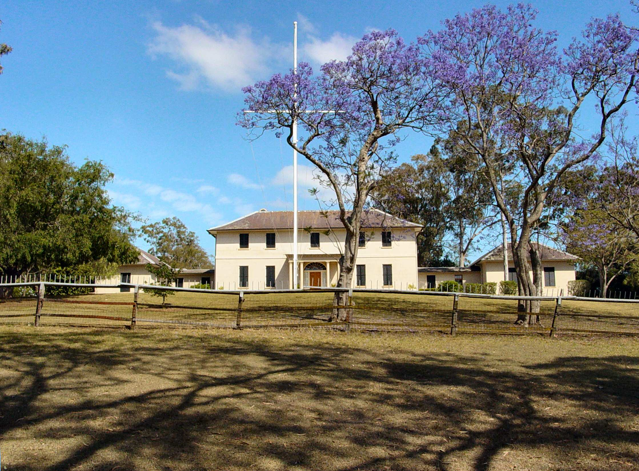 Picture taken and supplied by Brian Voon Yee Yap. Government House in Parramatta. Category:Images of Sydney